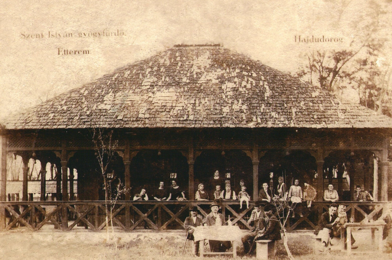 The Saint Stephen Bath, opened in 1900 in Hajdúdorog, Hungary. It is not operating now. The hot spring's water was collected in tubs instead of swimming pools. They used the water to cure mainly rheumatic and dermatological diseases.